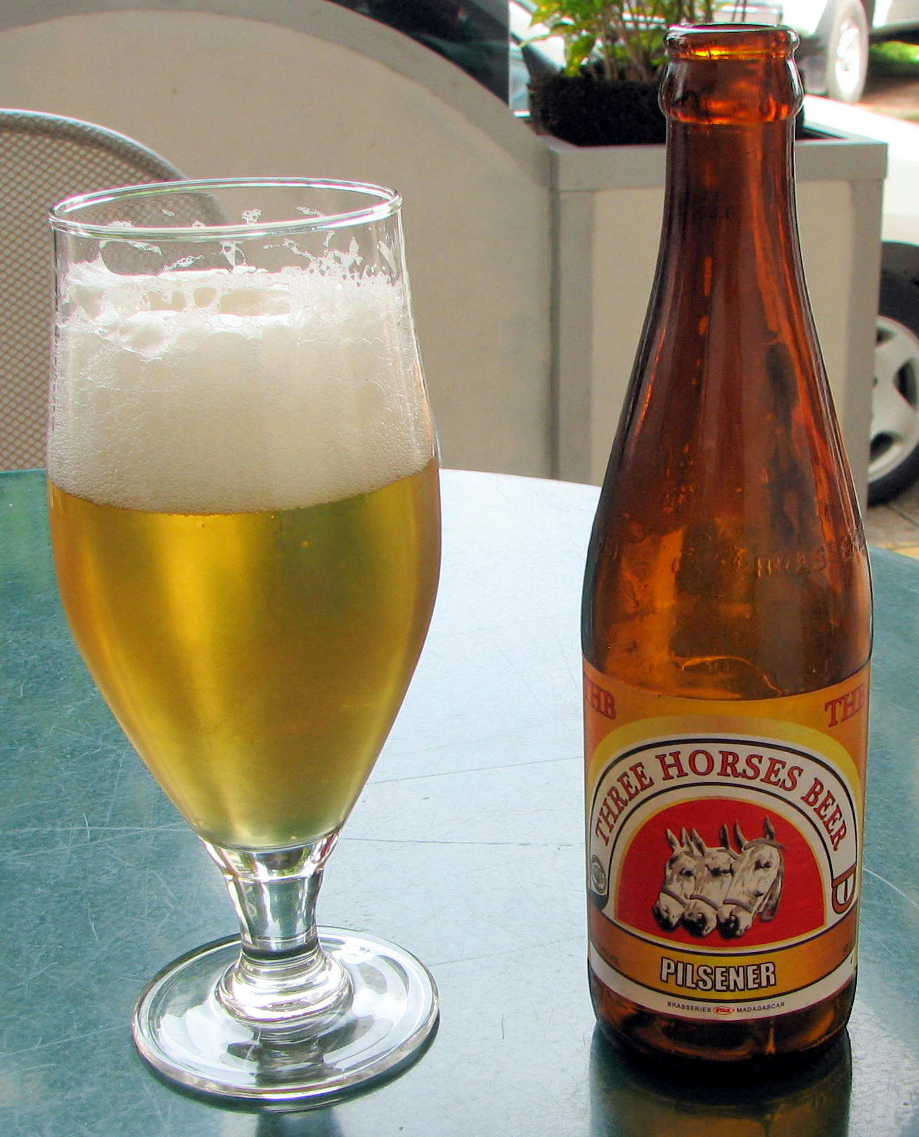 Three Horses Beer, Antananarivo, Madagascar